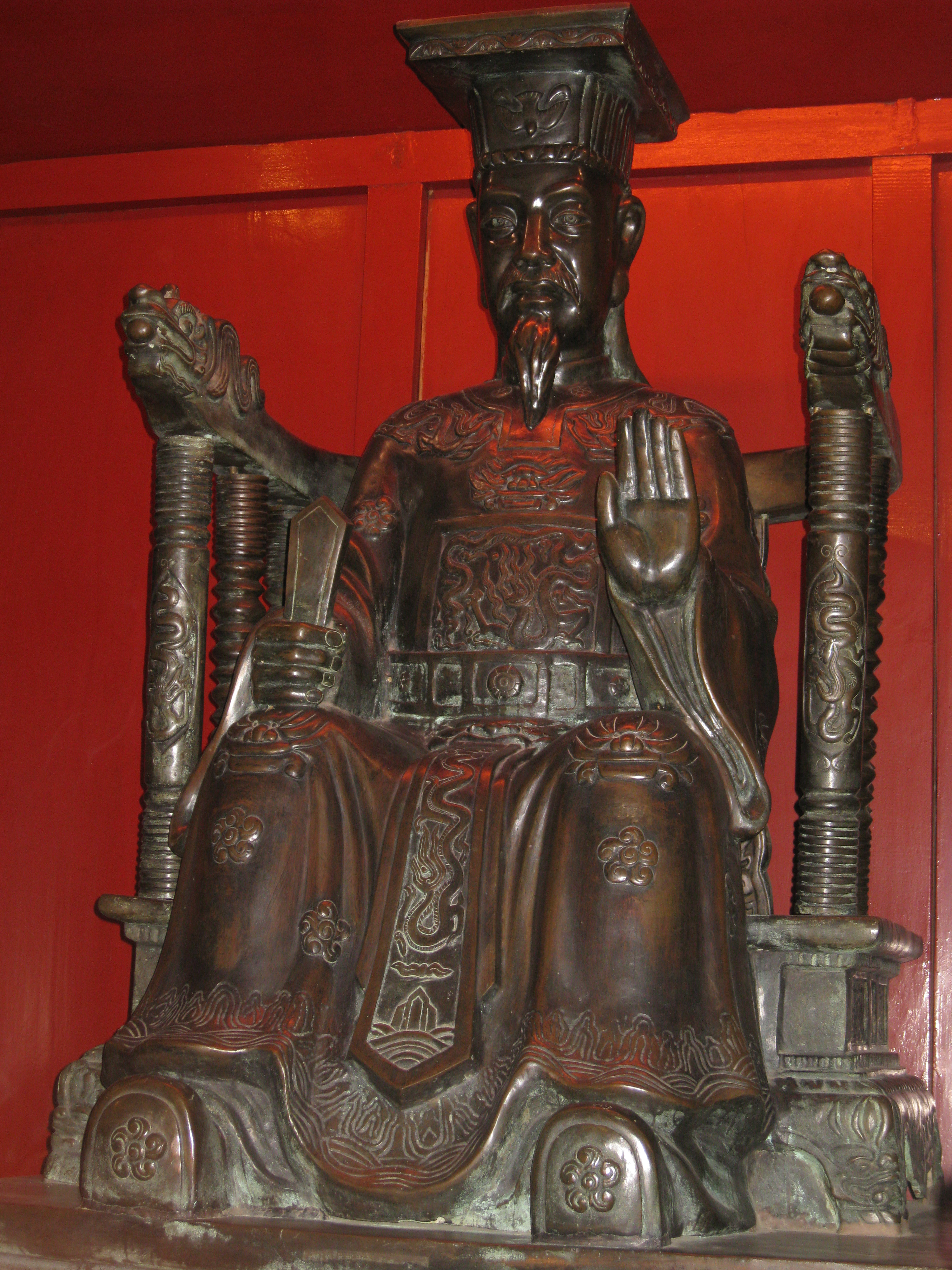 Bronze statue of King Lý Thánh Tông, Temple of Literature, Hanoi.